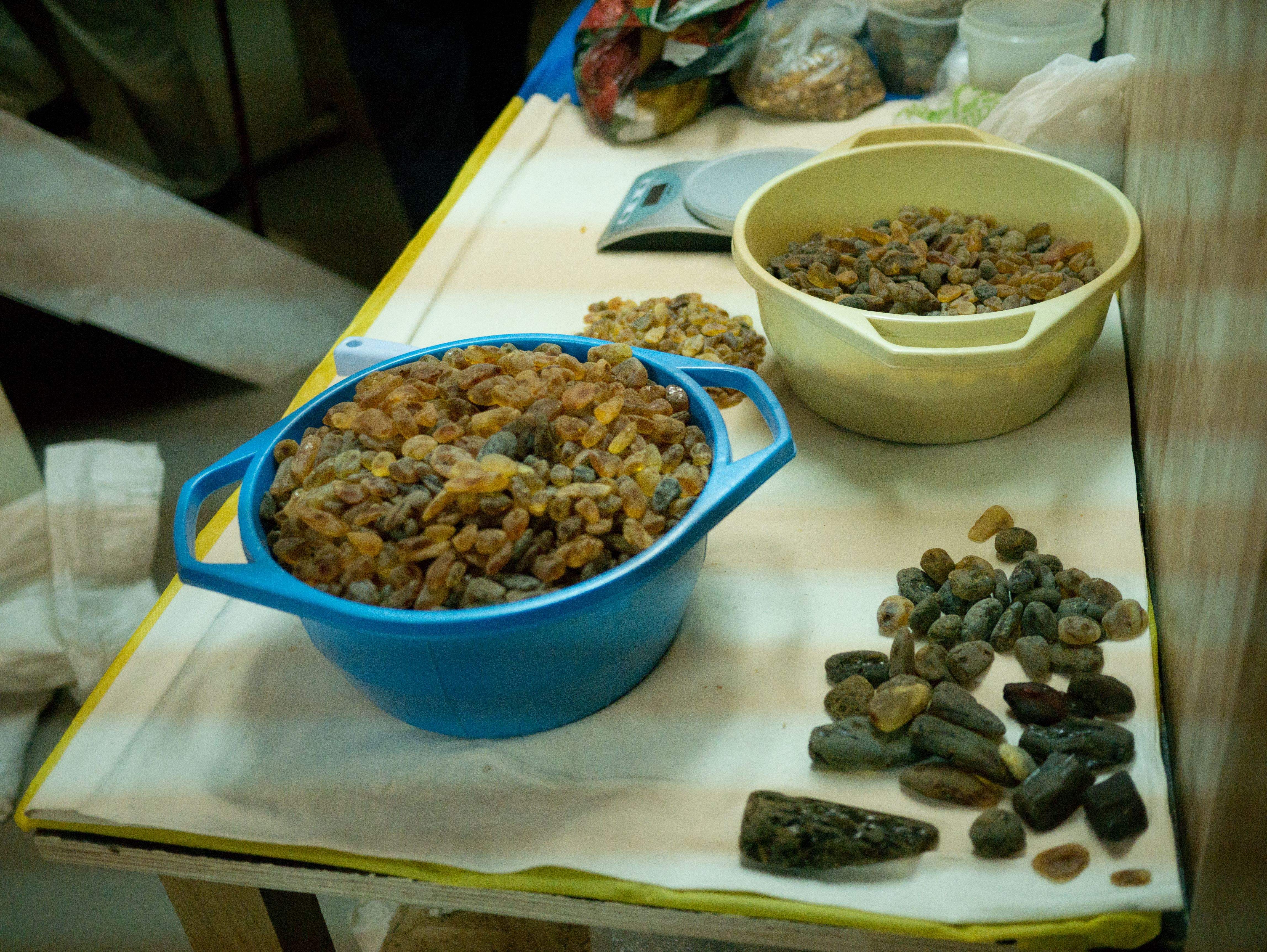 Pieces of amber at the amber mine, Yantarny, Kaliningrad Oblast, Russia.